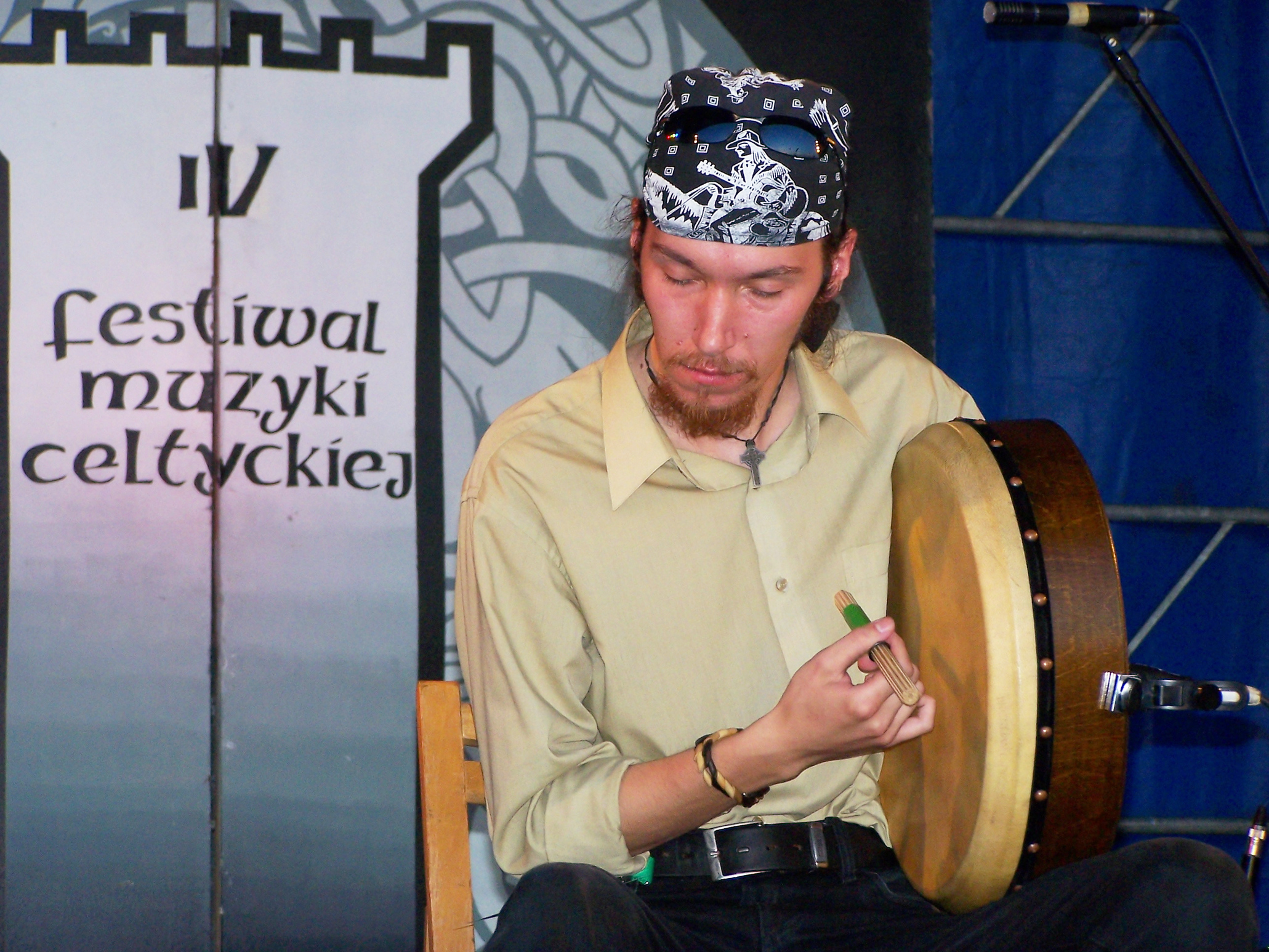 Adam Kryński from Duan celtic music band.